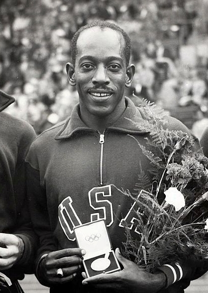 LF57 1952 Wire Photo BARNARD DILLARD DAVIS Olympic Hurdles Display Medals Pose